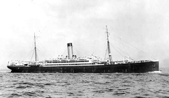 SS Canopic